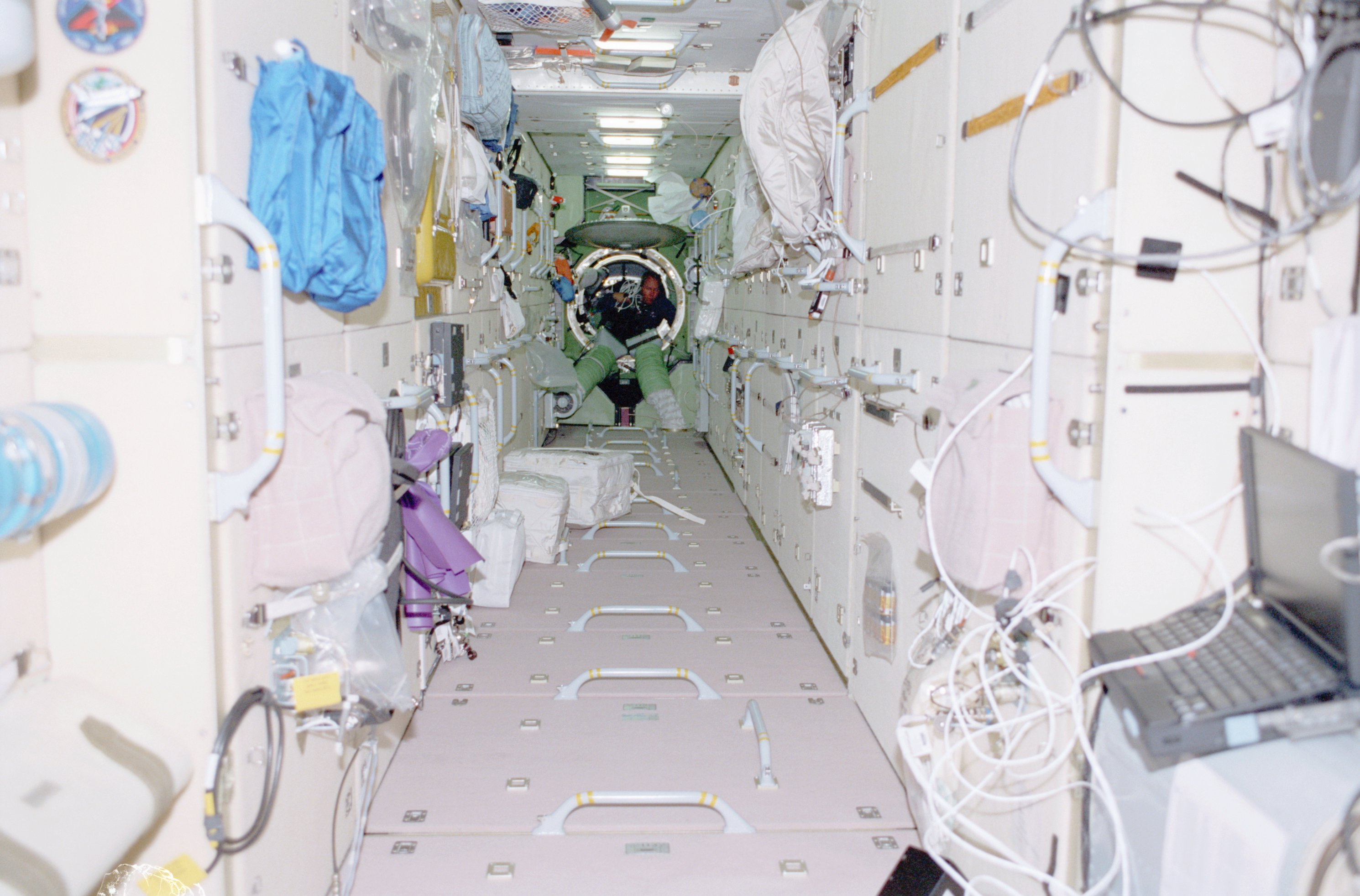 Mission Specialist Thomas Jones floats through the Zarya Functional Cargo Block (FGB) carrying hardware for the IMAX Camera. Photos were taken during Mission STS-98, International Space Station (ISS) Flight 5A. Image ID: sts098-338-023